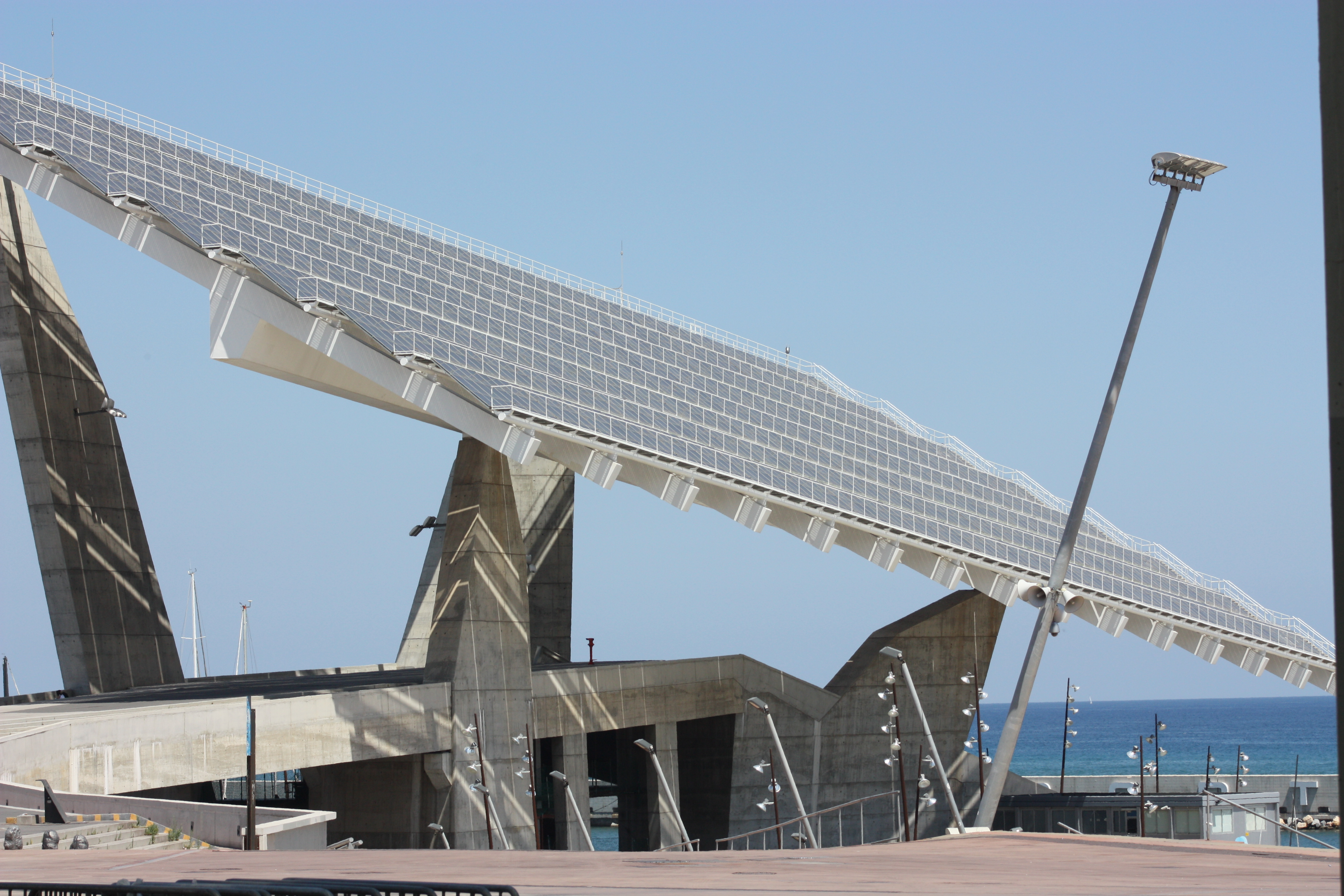 Solar panels, Diagonal Mar, Barcelona, July 2009